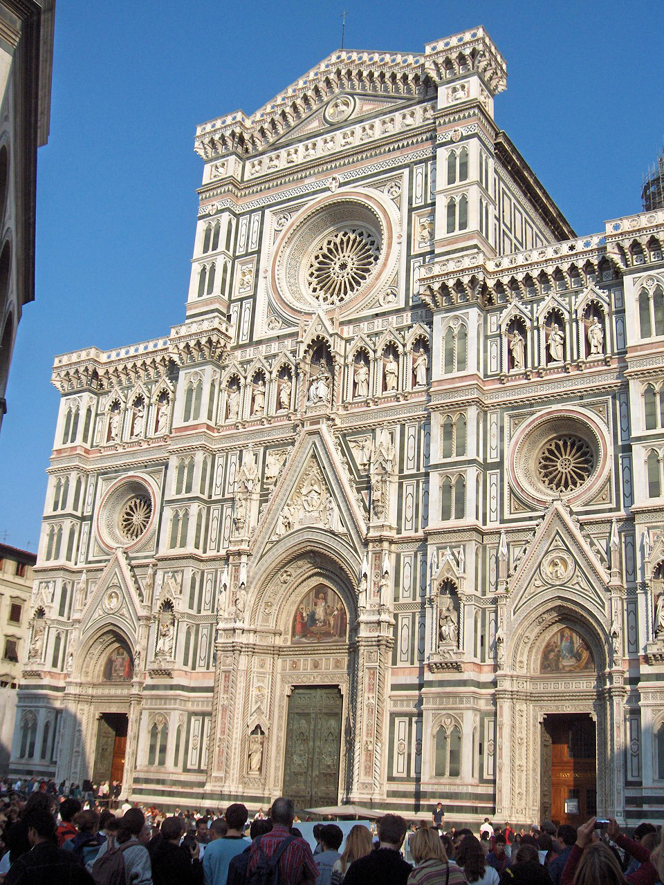 Facade of the Duomo Santa Maria del Fiore; Florence, Italy Own photo - photo taken by Georges Jansoone on 12 October 2005